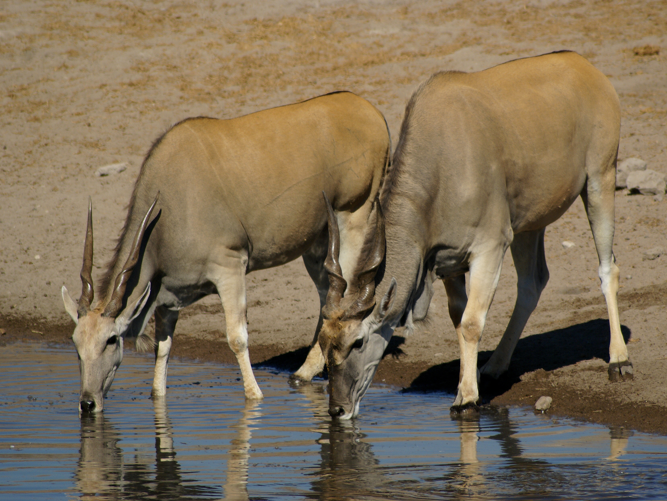 Eland at Chudop waterhole, Etosha National Park, Namibia